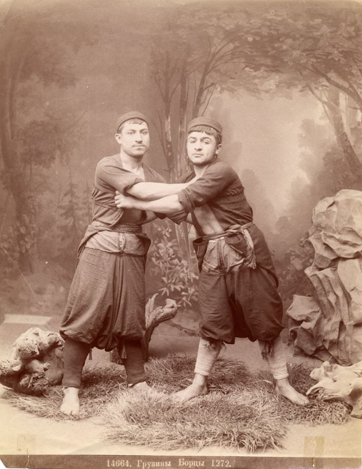 Georgian wrestlers.